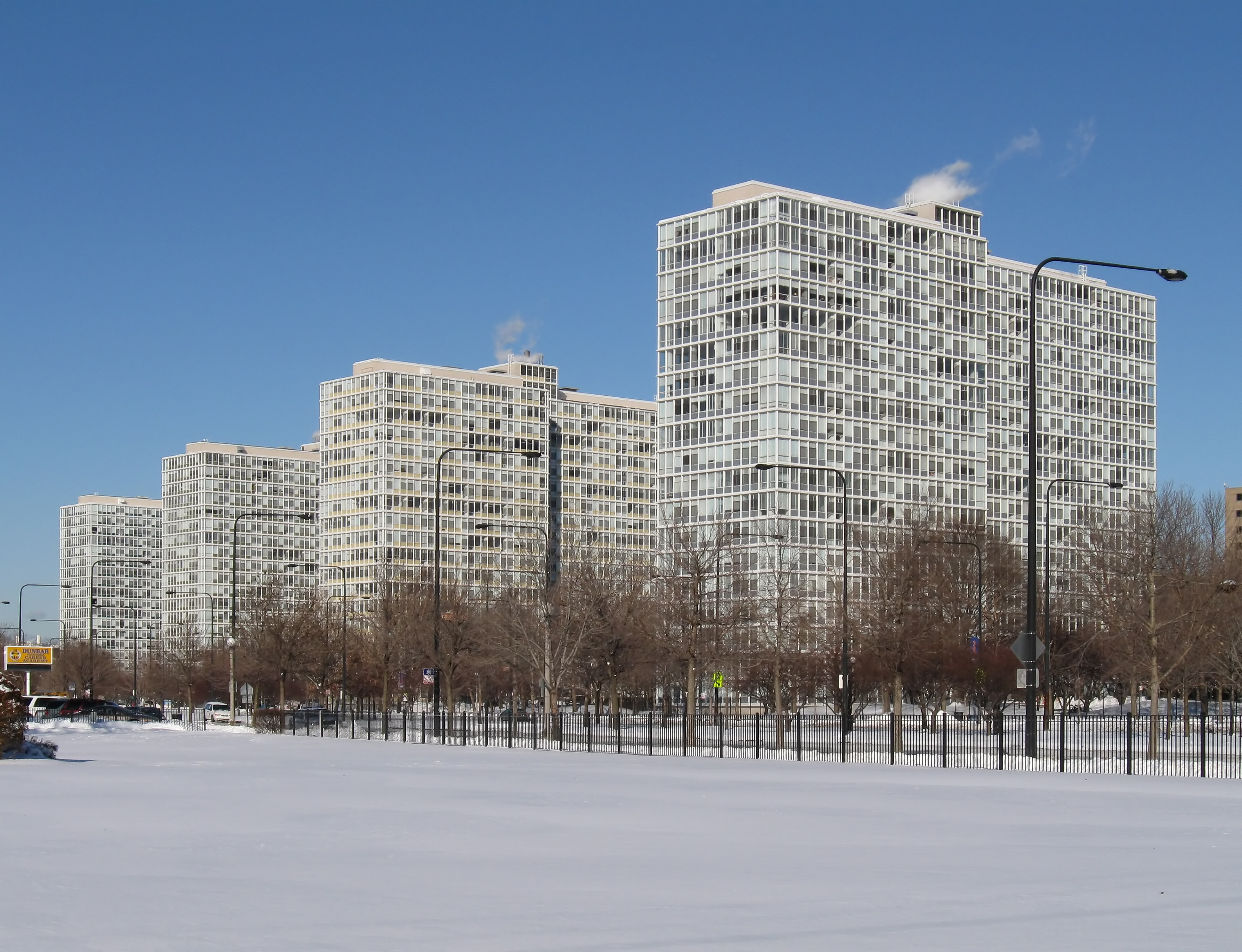 Prairie Shores Apartment at Bronzeville in Chicago, USA